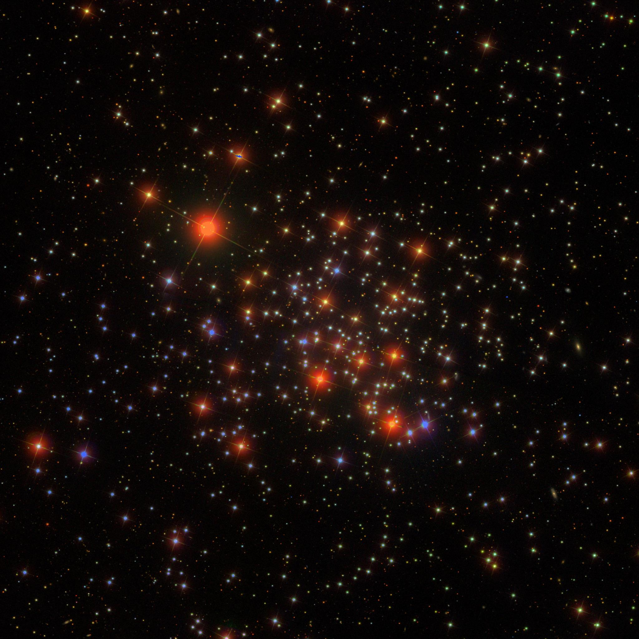 Angle of view: 27' × 27' (0.792" per pixel), north is up.